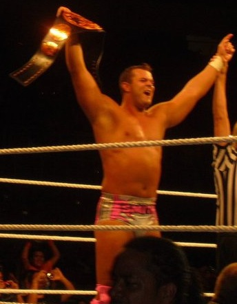 David Hart Smith as the WWE Tag Team Champion